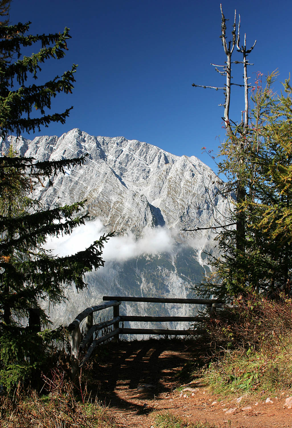 View from Feuerpalven onto Watzmann